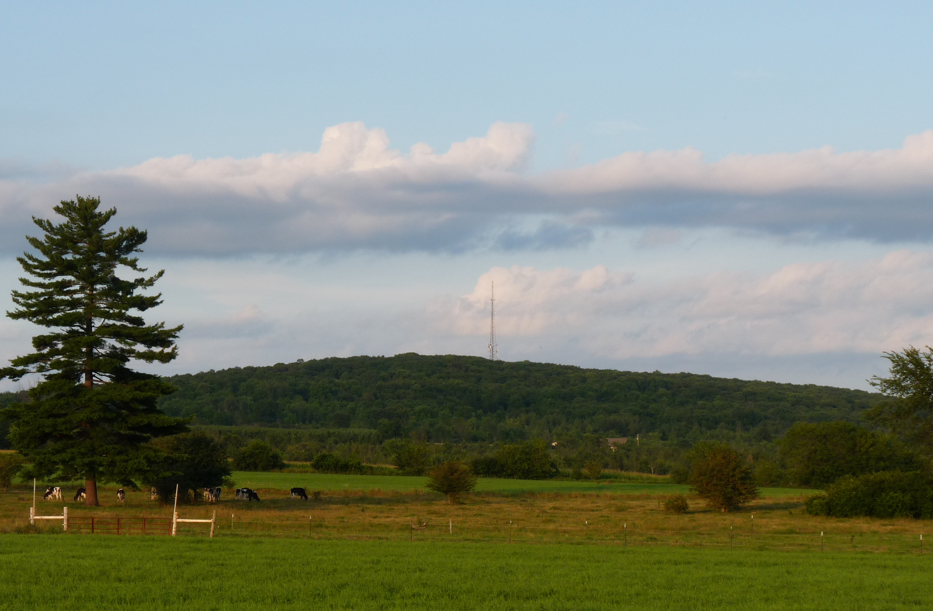 Powers Bluff, near Arpin WI, from the west, with holsteins in foreground.